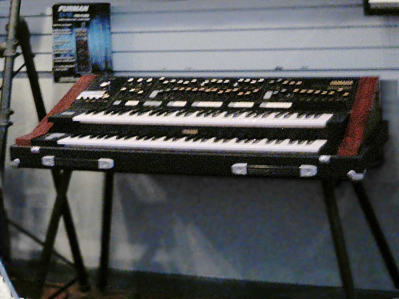 Yamaha SK-50D (1979) = Poly/Solo Synth + Ensemble (presets) + Organ with Bass